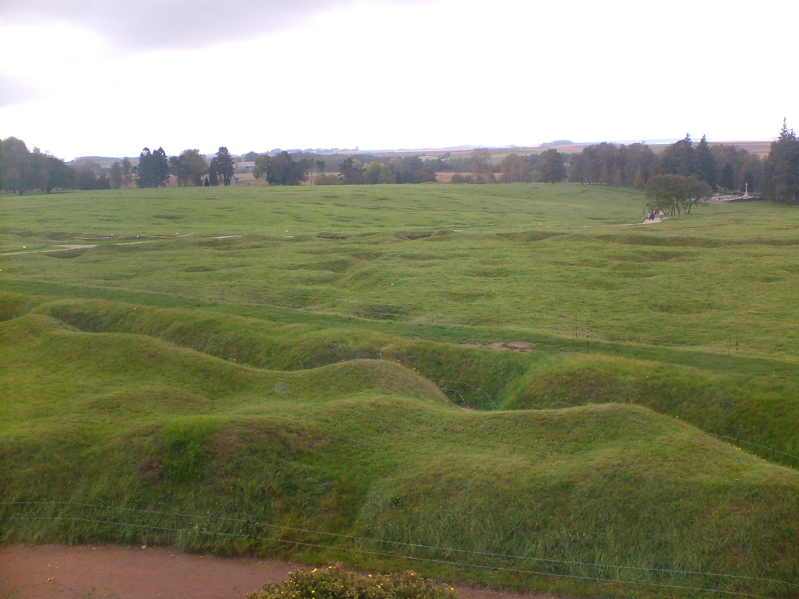 Own Picture